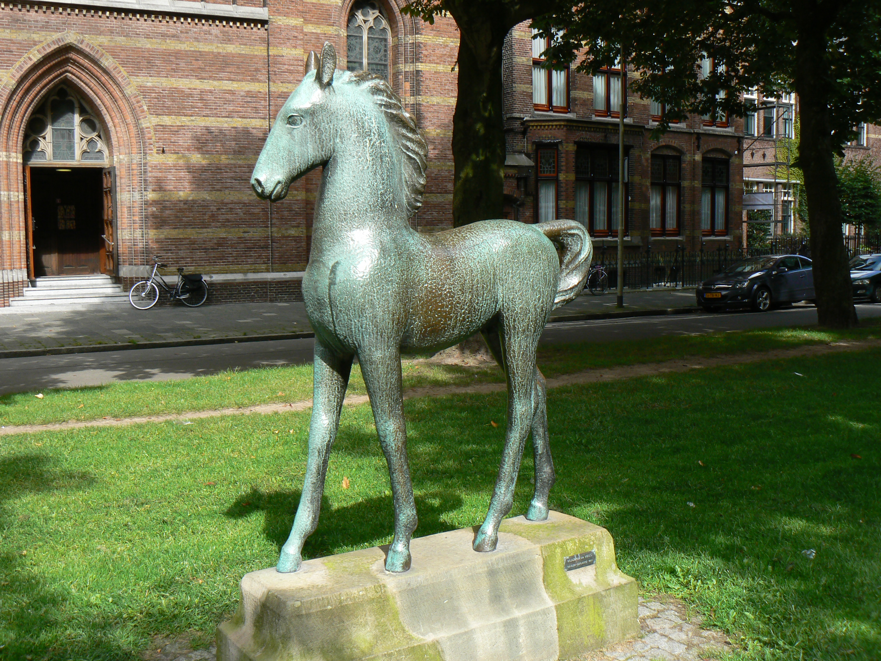 sculpture Veulen (1951) by Wladimir de Vries in Groningen/The Netherlands